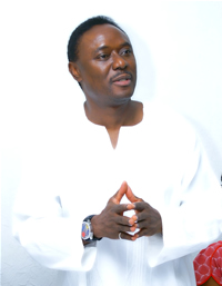 I took this photo myself with my digital camera during the FDP meeting in Lagos, Nigeria a couple of months ago. I am a web designer and built the websites externally linked to Rev. Okotie's biography.